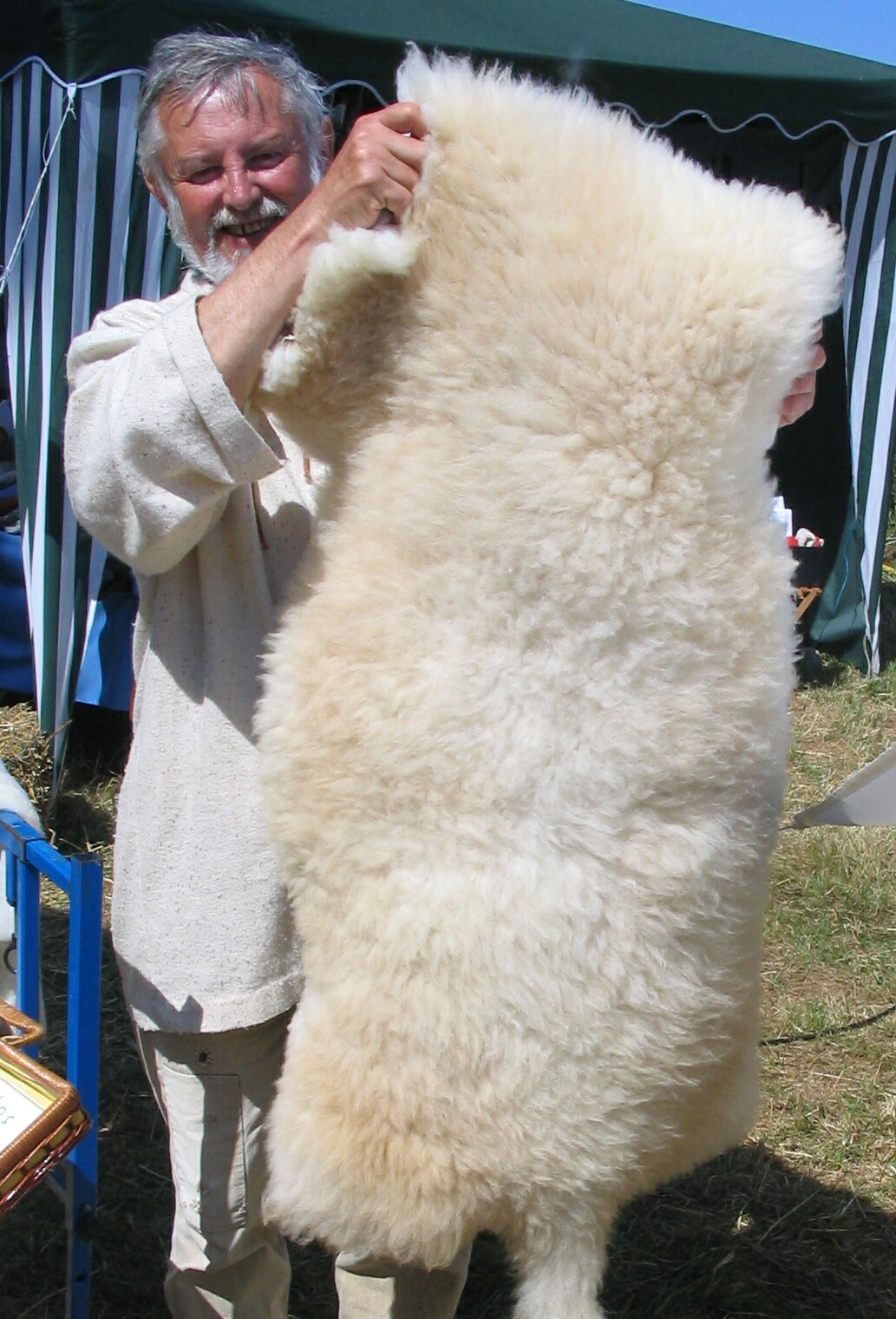 Rhön-sheep skin. Germany.